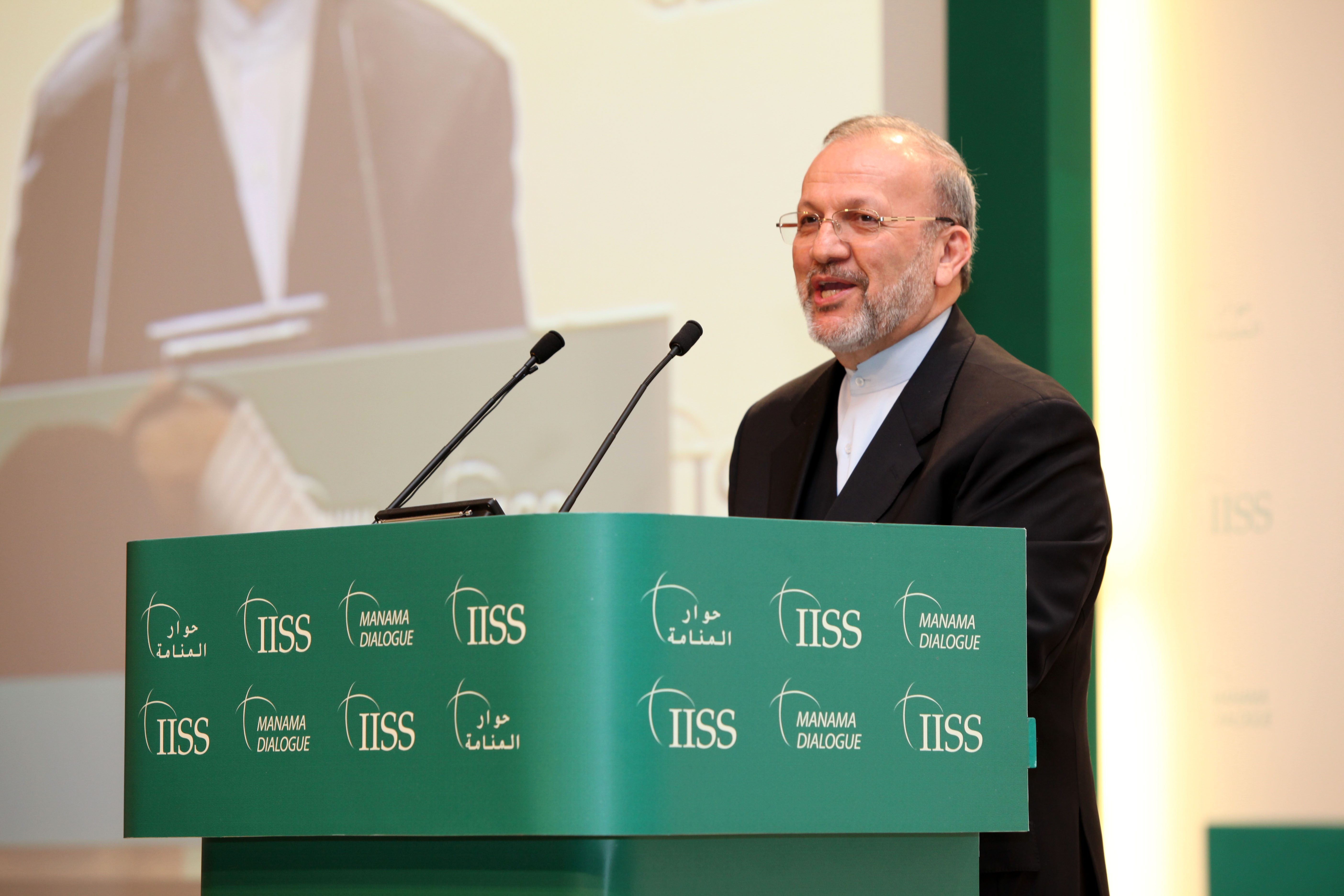 Iranian Minister of Foreign Affairs Manouchehr Mottaki speaks to delegates during the Seventh Regional Security Summit of the International Institute for Strategic Studies at the Ritz-Carlton Bahrain Hotel and Spa in Manama, Bahrain, Dec. 4, 2010.